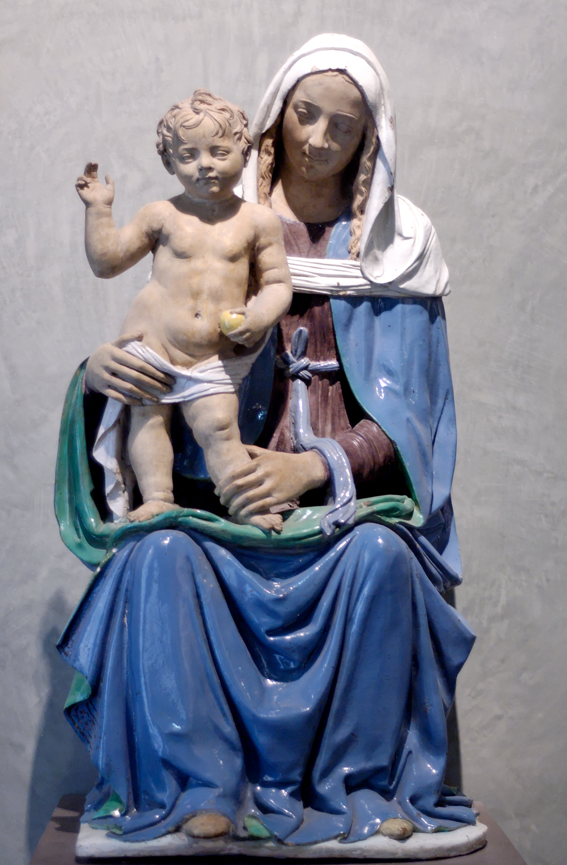 Seated Virgin holding the Christ Child on her right knee. Partly glazed terracotta, date unknown.